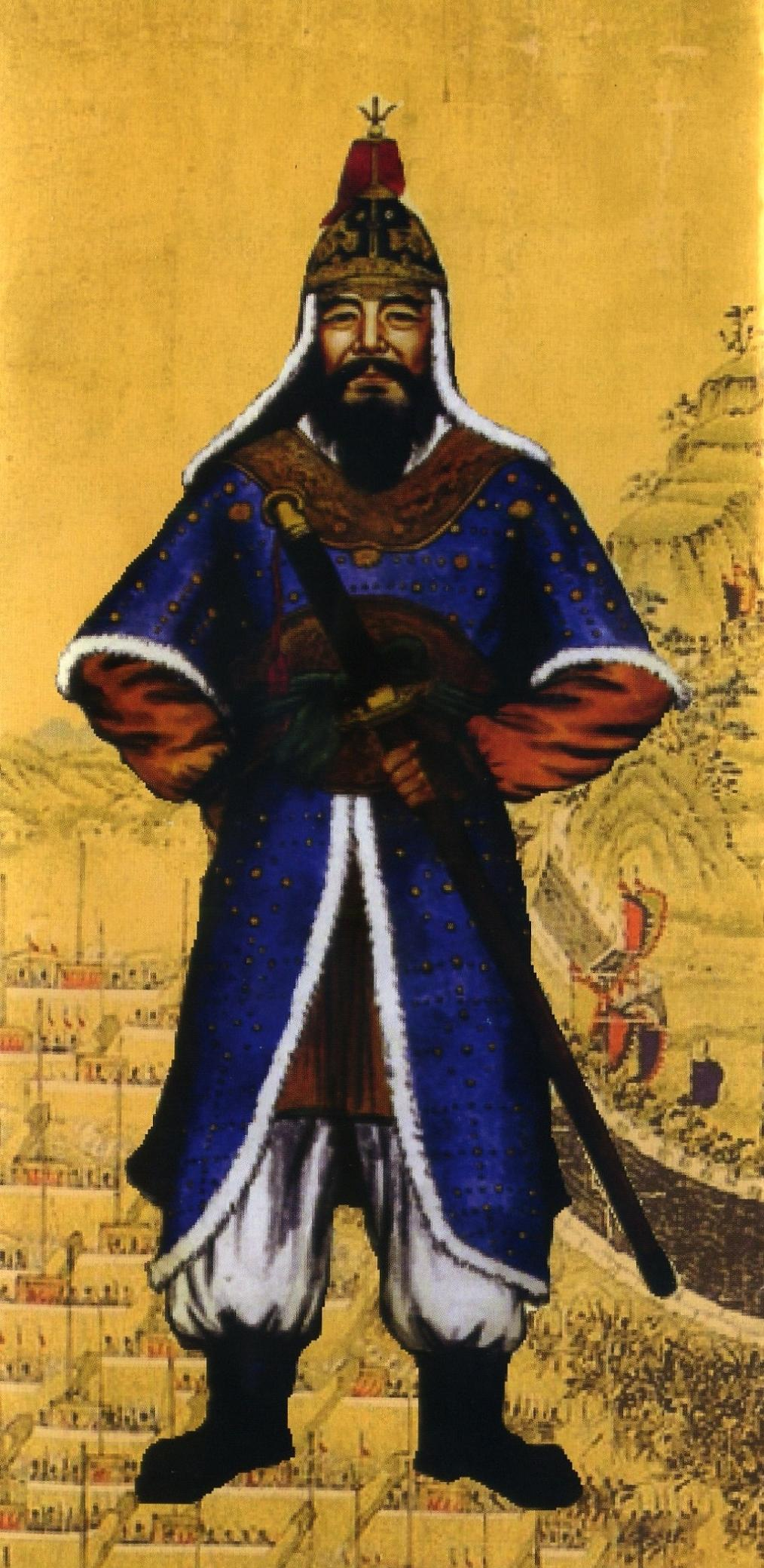 General Jing Bal